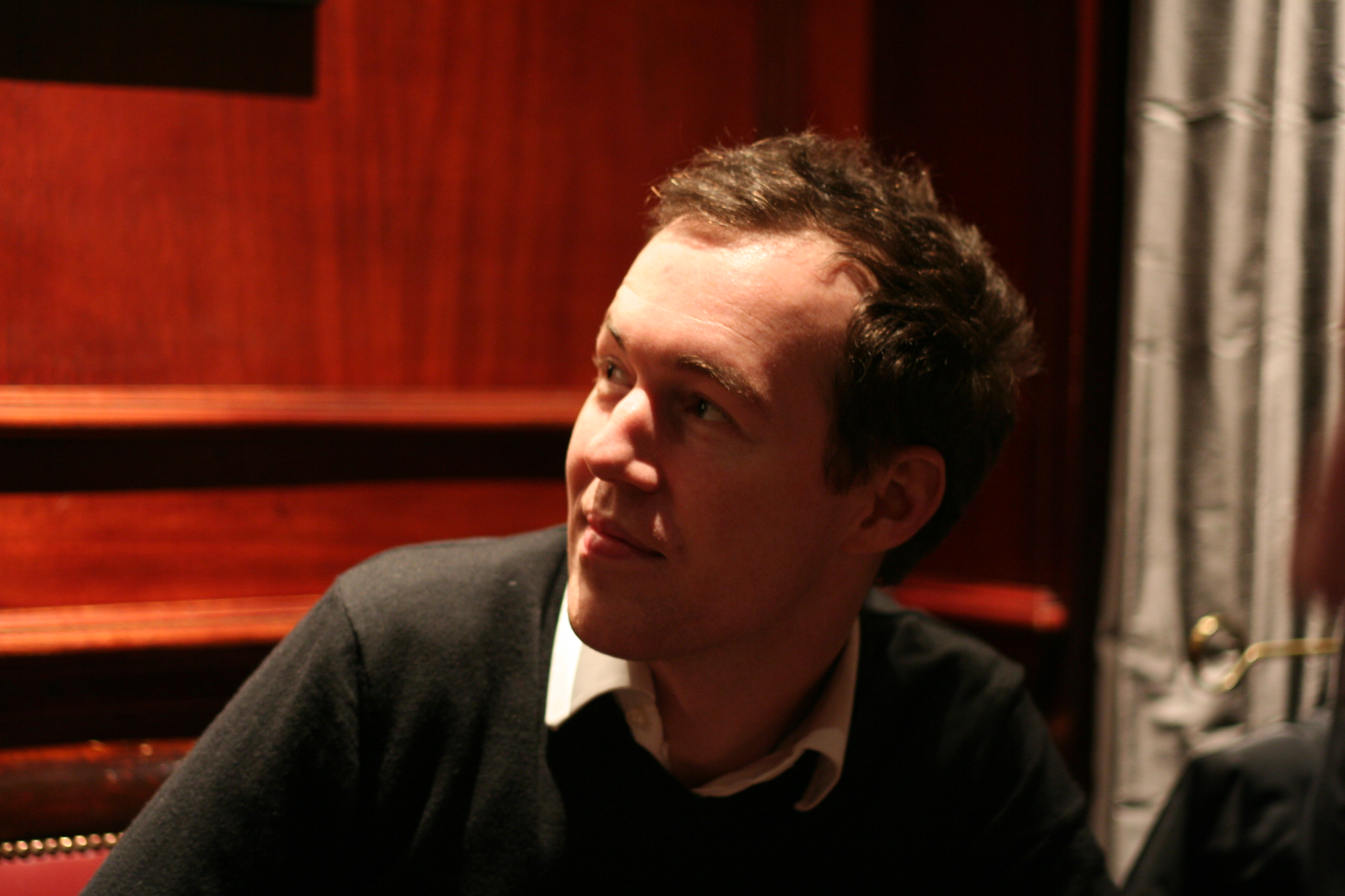 Martin Stiksel , Last.fm Founder